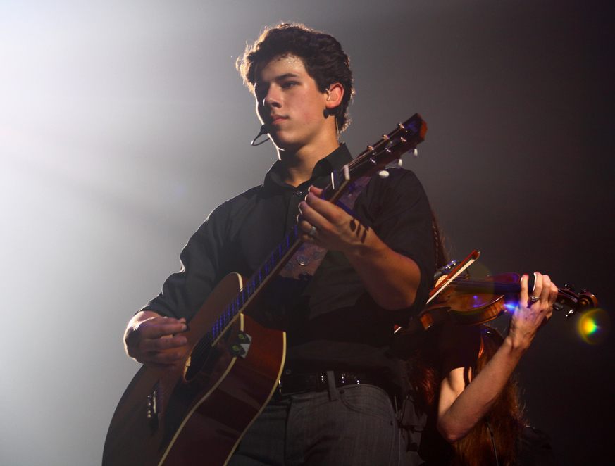 Jonas Brothers Concerts - Allstate Arena - Rosemont, Illinois 2009.